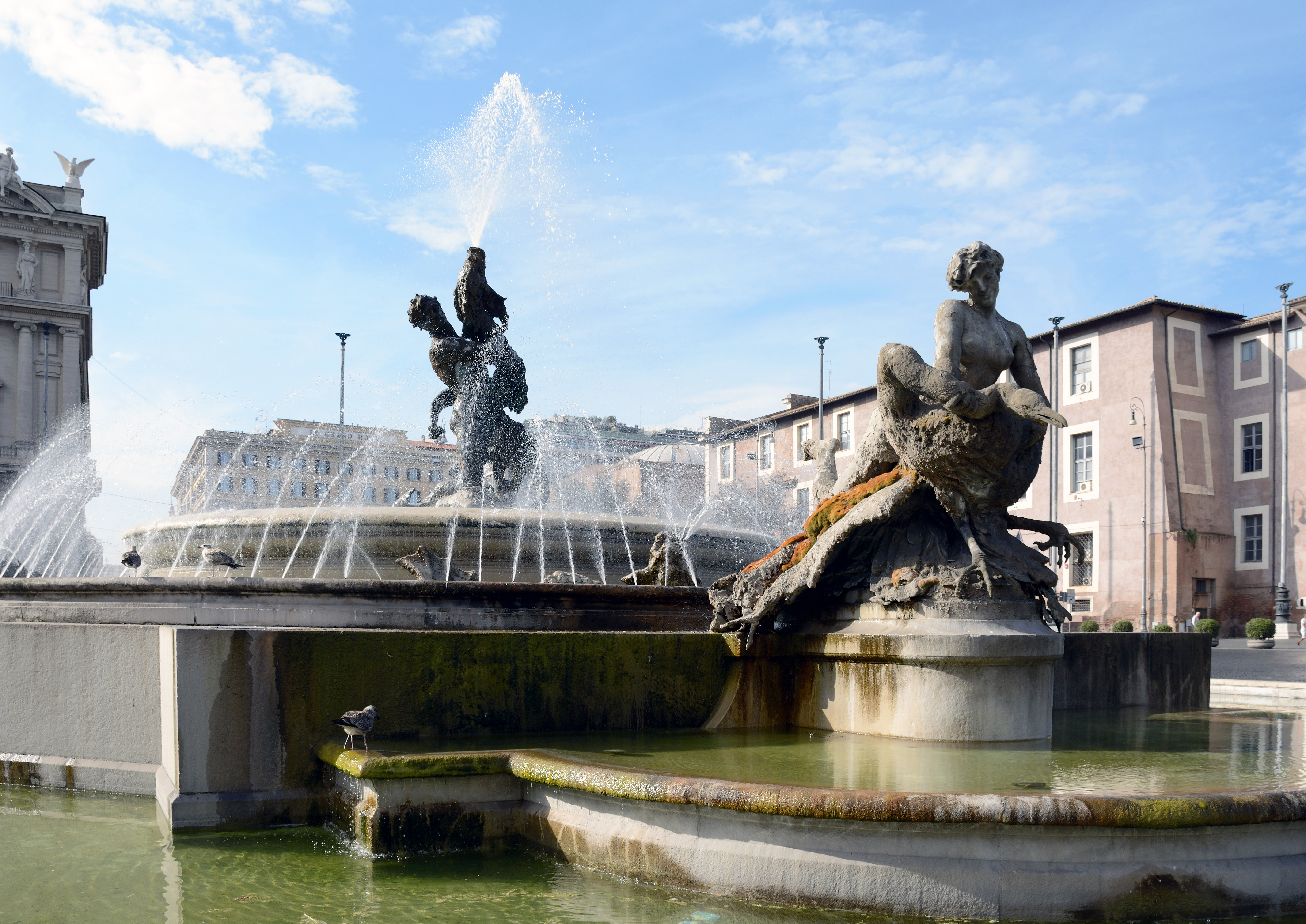 Fontana delle Naiadi - east view